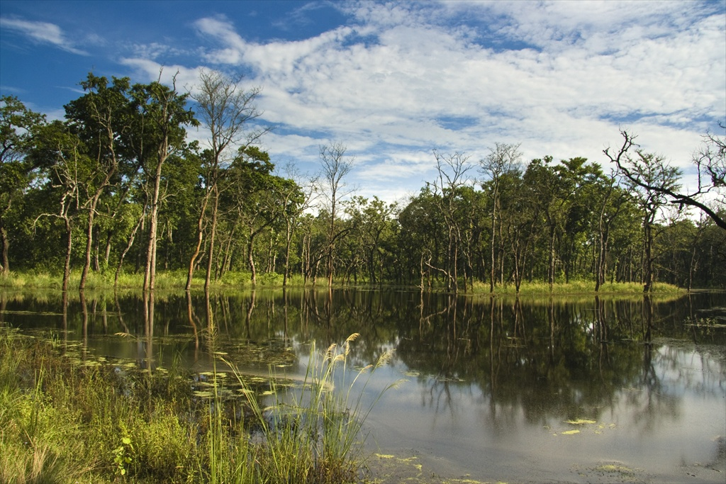 Chitwan valley, Nepal